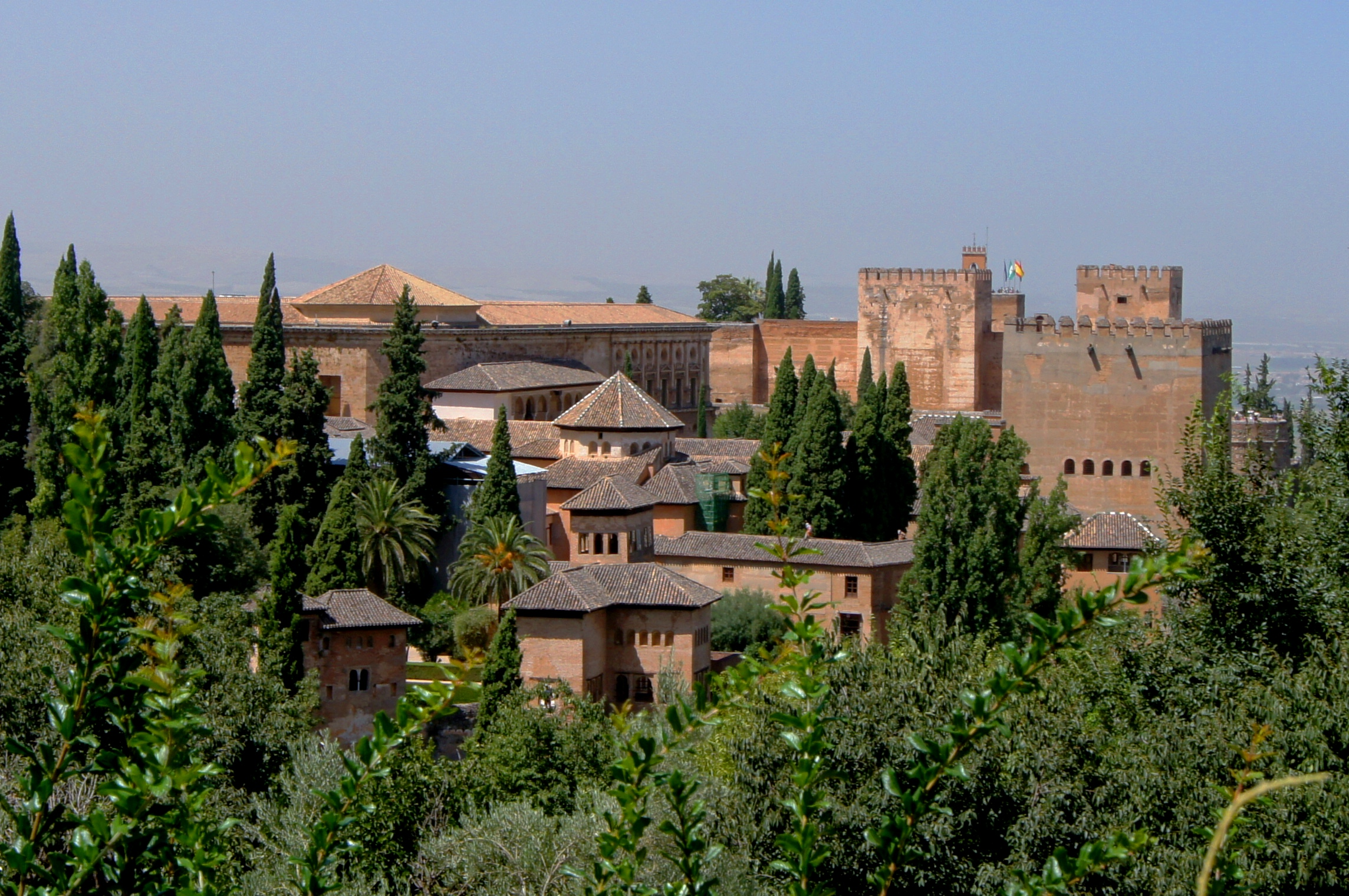 The complex of the Alhambra, view from Generalife, Granada, Spain